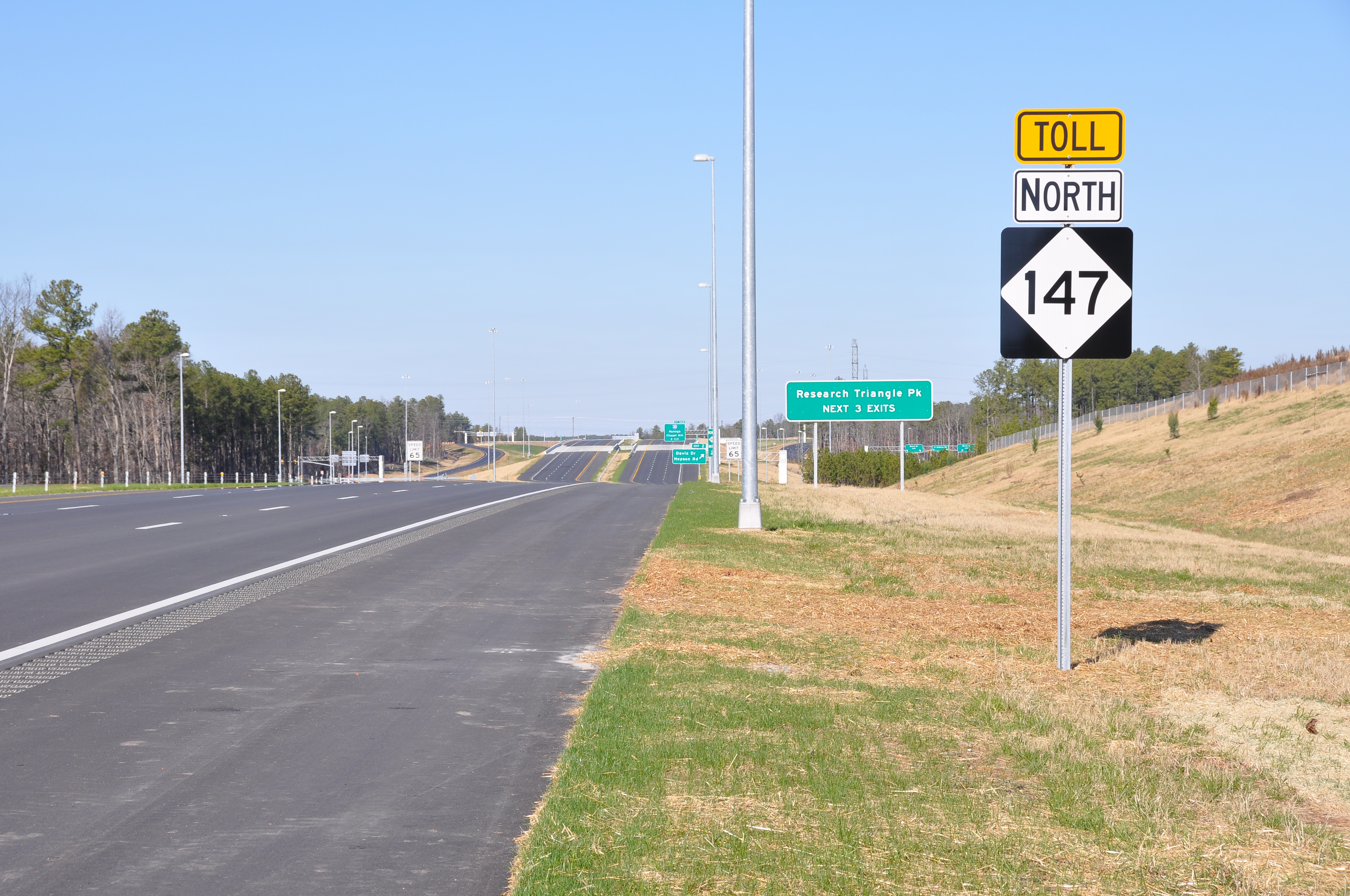 Northbound along North Carolina Highway 147 near Davis Drive/Hopson Road exit.